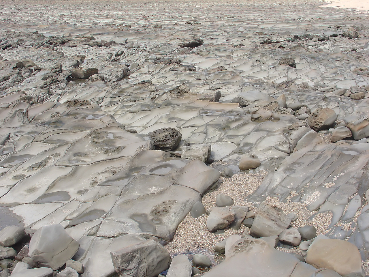 Oni-no-Sentaku-ita (The Ogre's Washboard), Taken at Miyazaki City, Miyazaki Prefecture, Japan.